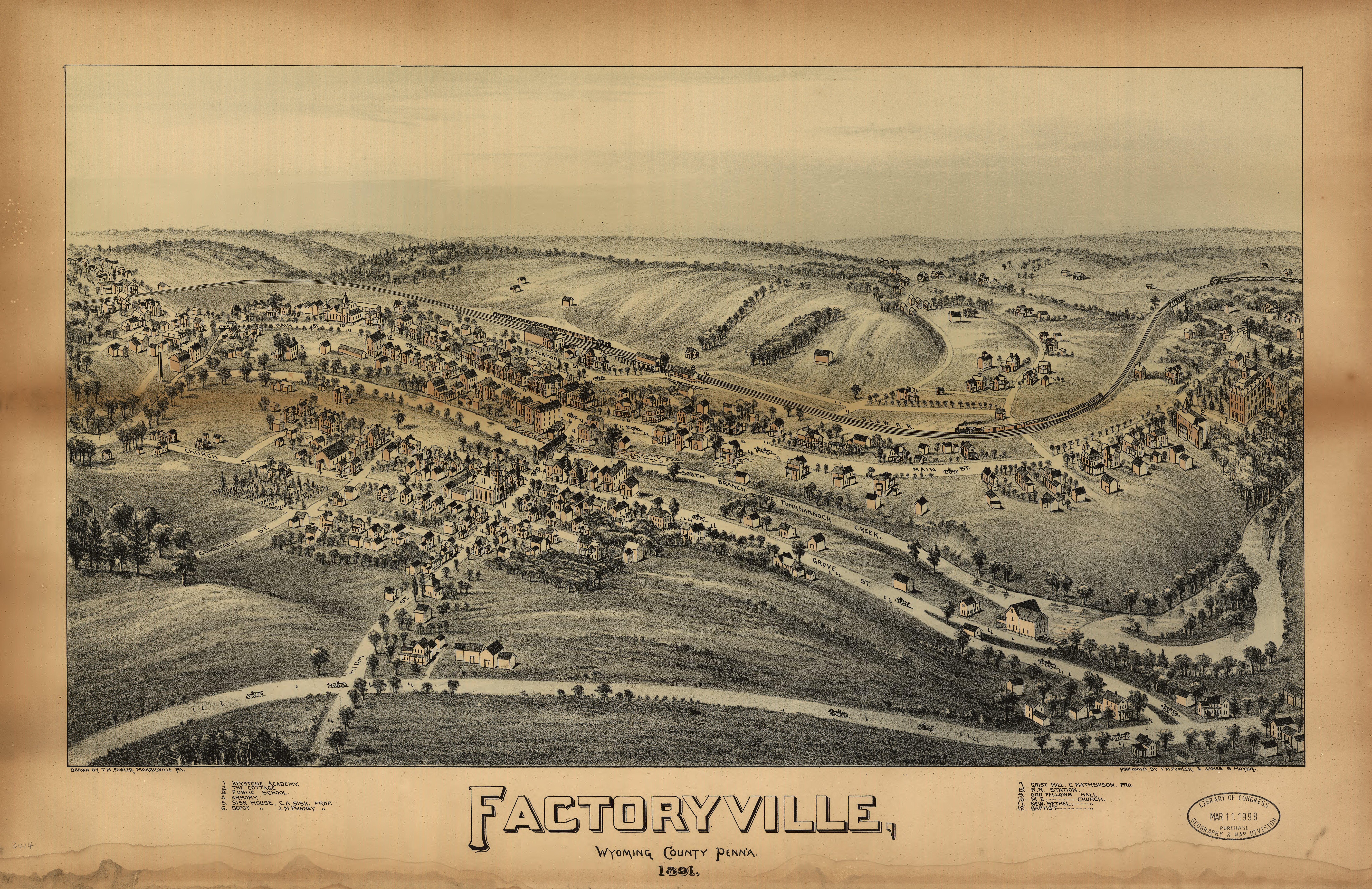 Bird's-eye view of Factoryville, Pennsylvania in 1891 by Thaddeus Mortimer Fowler. From the Library of Congress, their metadata follows: Factoryville, Wyoming County, Penn'a / drawn by T.M. Fowler, Morrisville, Pa. Fowler, T. M. 1842-1922. (Thaddeus Mortimer), CREATED/PUBLISHED [Morrisville] : T.M. Fowler & James B. Moyer, 1891. NOTES Bird's-eye view. Includes index to points of interest. LC copy stained and darkened. Not drawn to scale. SUBJECTS Factoryville (Wyoming County, Pa.)--Aerial views. United States--Pennsylvania--Factoryville (Wyoming County) RELATED NAMES Moyer, James B. MEDIUM 1 view : col. ; 35 x 62 cm. CALL NUMBER G3824.F2A3 1891 .F6 REPOSITORY Library of Congress Geography and Map Division Washington, D.C. 20540-4650 USA DIGITAL ID g3824f pm007752